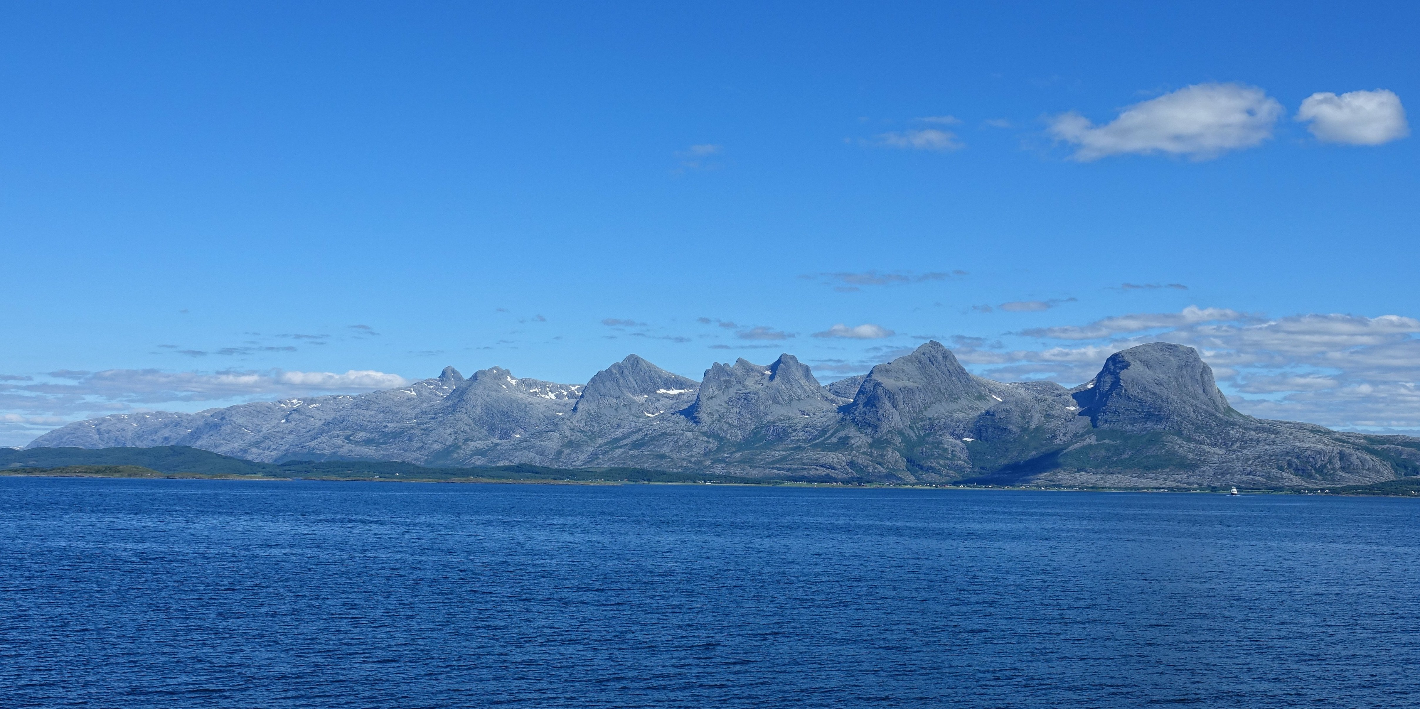 The Seven Sisters mountains (in Norwegian: "Sju søstre") in Alstahaug, Norway, photographed from the ferry between Søvik and Herøy.